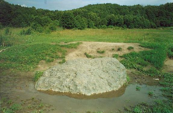 Blue Rock